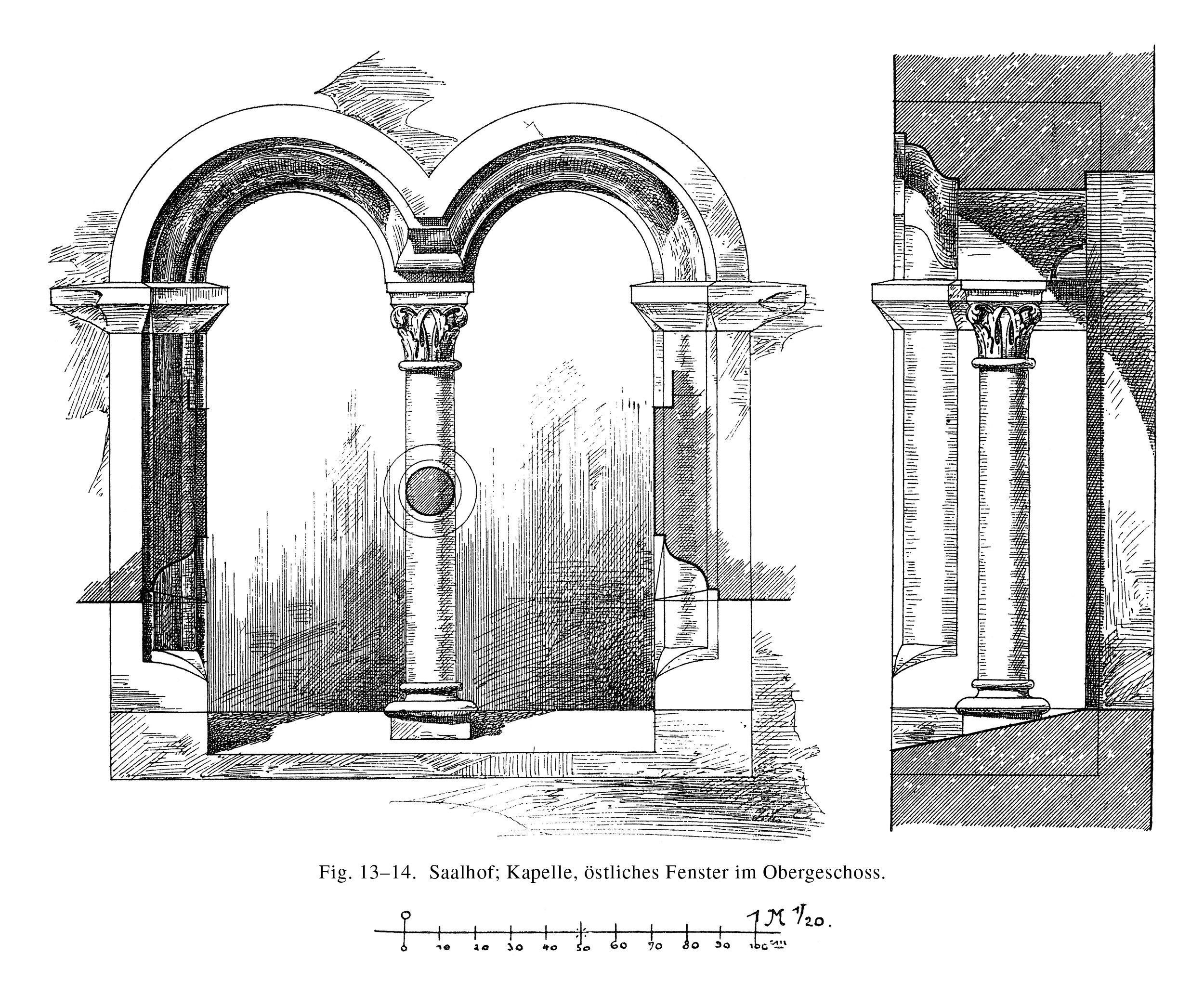 Frankfurt on the Main: Saalhof, oversize and section of the eastern window in the chapel's upper floor